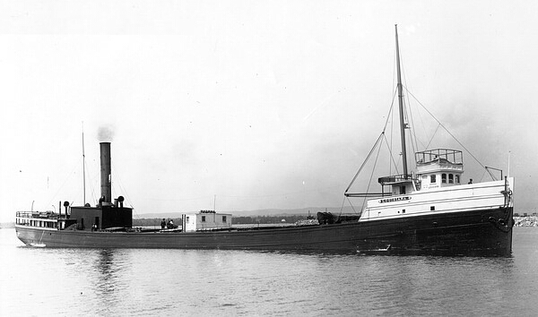 The Louisiana prior to her sinking